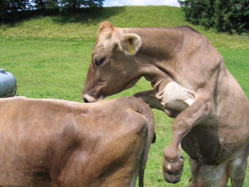 A cow in pre-oestrus attempting to jump another cow